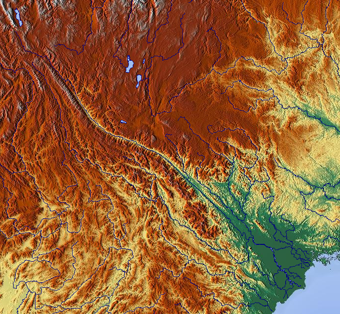 Hong River and Tributaries